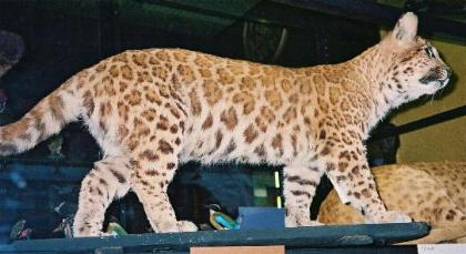 Photographer: Sarah Hartwell (Messybeast). Taxidermy Pumapard at Rothschild Museum, Tring, England.